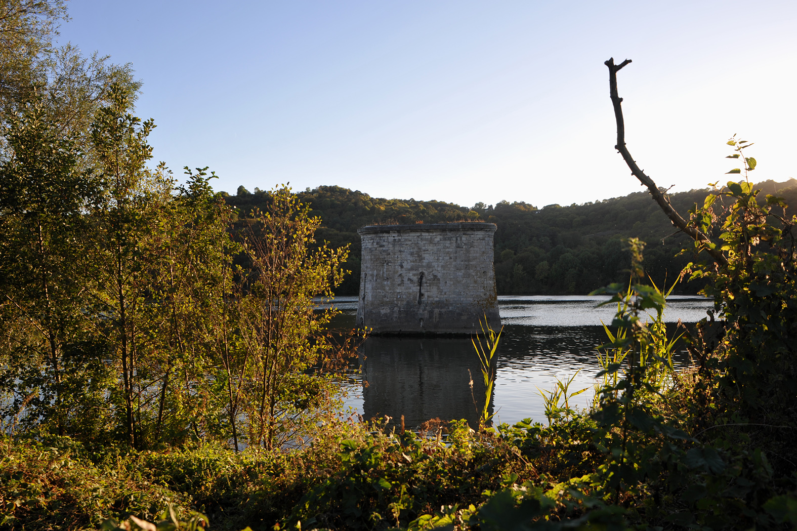 Former railway bridge over the Seine river near Le Mesnil; Eure, France. Only two river pillars remaining.